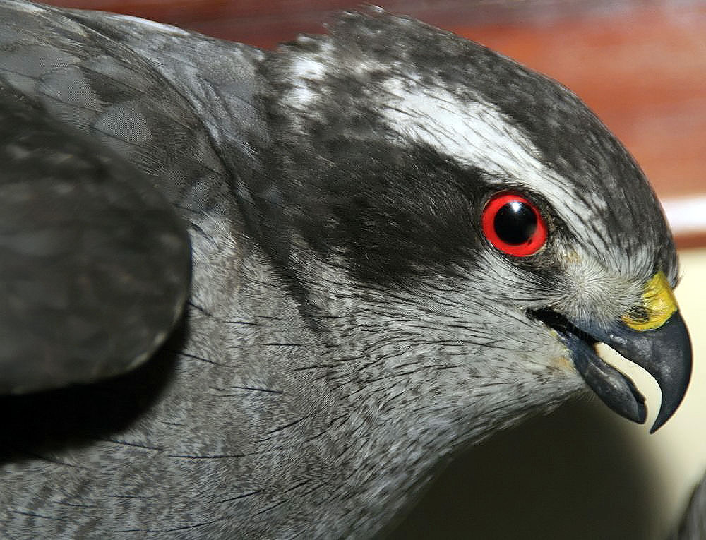 Location taken: Smithsonian National Museum of Natural History. Names: Accipiter gentilis (Linnaeus, 1758), Acipitro, Açor, Akcipitro, Altore, Altore (spezia), Astor, Astore, autour des palombes, Azor, Azor Común, Aztore, Bayağı çakır kuşu, Cagnŕs, Çakir kusu, Çakırkuşu, Duehøg, Duvhök, Eurasian Goshawk, Farcuni ri voscu, Ferriascu, Gavil, Gavilán azor, GavilÃ¡n azor, Giníłbáhí, Gjeraqina, Goahppilfálli, Goedh-hok, Goshawk, Gwalch Marth, Gwazsparfell, Haavk, Habicht, Hafoc, Happech, Hauk, Havik, Havik (vogel), Héja, Hønsehauk, Høsnaheykur, Jastrab veľký, Jastreb, Jastreb kokošar, Jastrząb, Jastrząb zwyczajny, Jestřáb lesní, Kanahaukka, Kanakull, Kipanga Mkubwa, Kragulj, Kùrzélc, Kúyra, Northern Goshawk, Northern Goshawk (Eurasian), Ó ngỗng, Seabach, Sparfell voan, Teterevyatnik, Tetraçalan, Uliu porumbar, Vistu vanags, Vištvanagis, Wôteu ås colons mansåds, Διπλοσάϊνο, Јастреб кокошкар, Голям ястреб, Къарчигъай, Тетеревятник, Хартыга, Хъарчигъа, Ястраб-цецяроўнік, Ястреб тетеревятник, Ястреб-тетеревятник, Яструб великий, Қаршыға, Ҡор ҡарсығаһы, Үлэг харцага, נץ גדול, باز (پرنده), باز شما